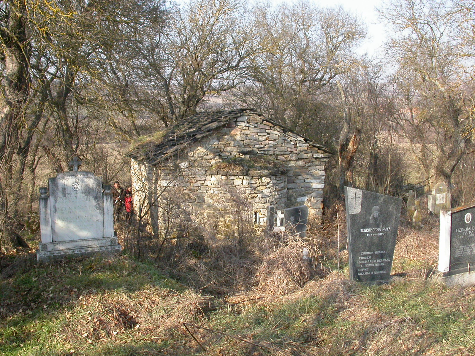 Upper church in Pogradje, eastern look